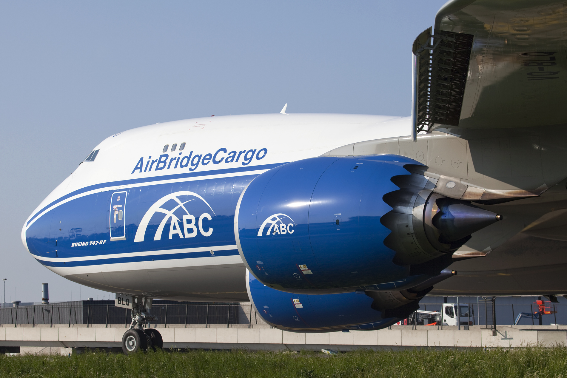 Schiphol